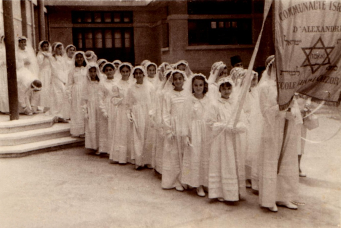 Jewish girls during Bat Mitzva in Alexandria, Egypt